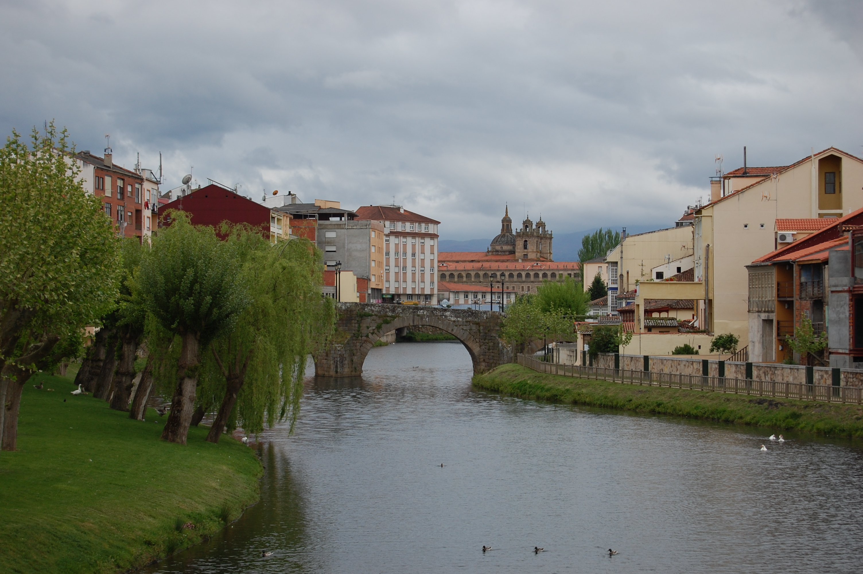 Monforte